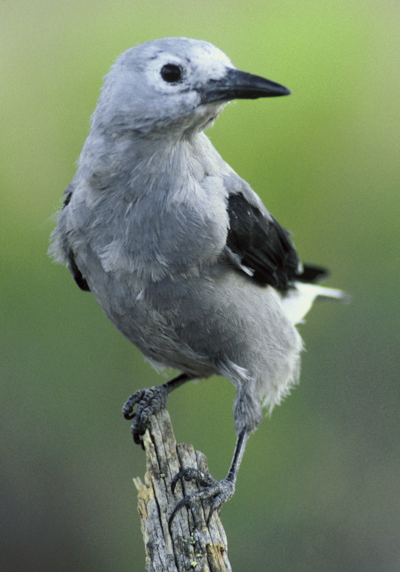 Clark's Nutcracker Nucifraga columbiana from United States Fish and Wildlife Service